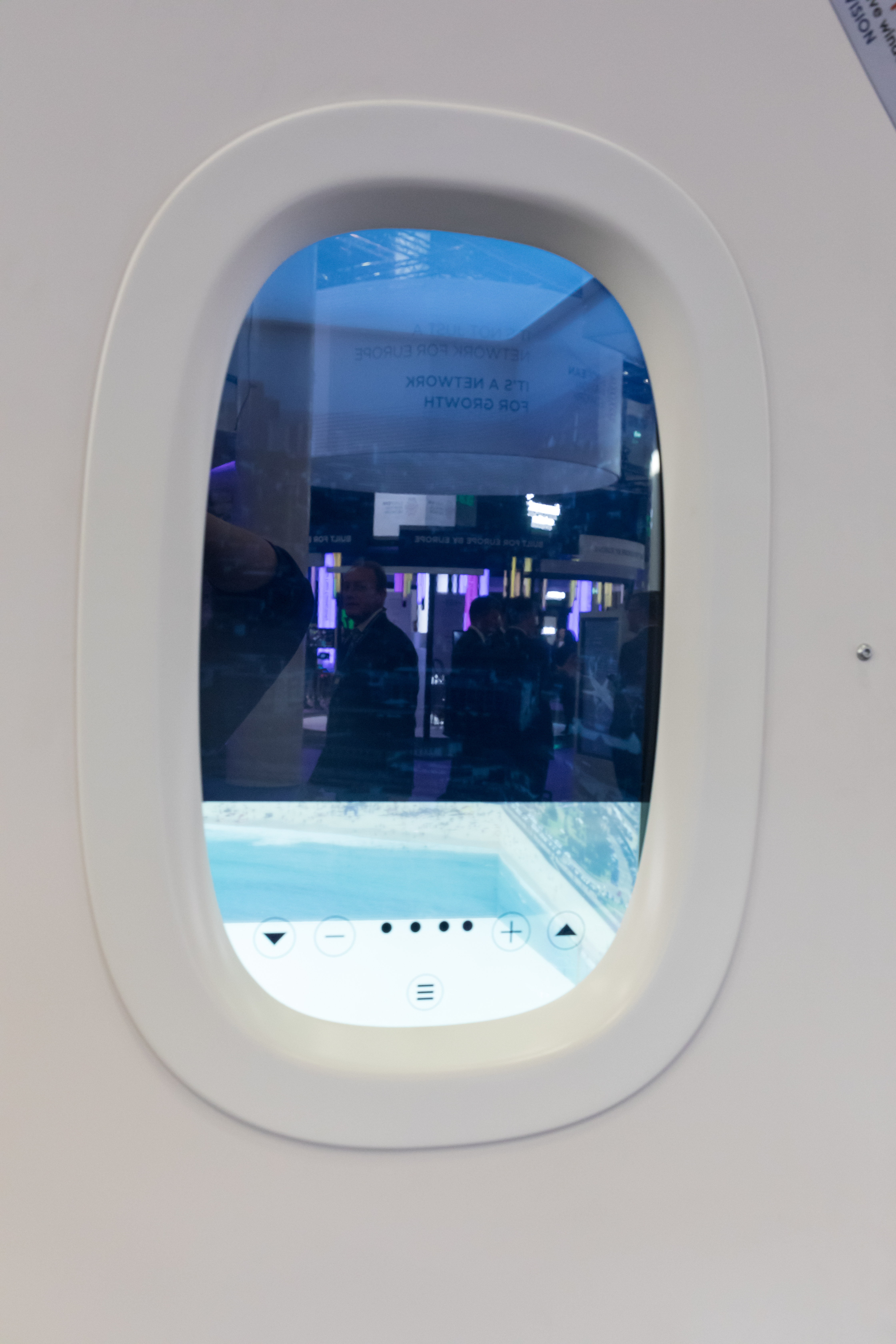 Passenger Experience Week 2018, Hamburg